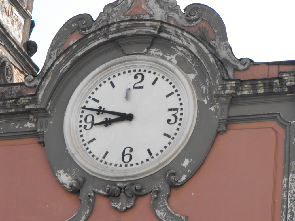 Clock